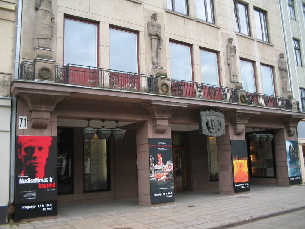 Drama Theater, Kaunas (Lithuania).